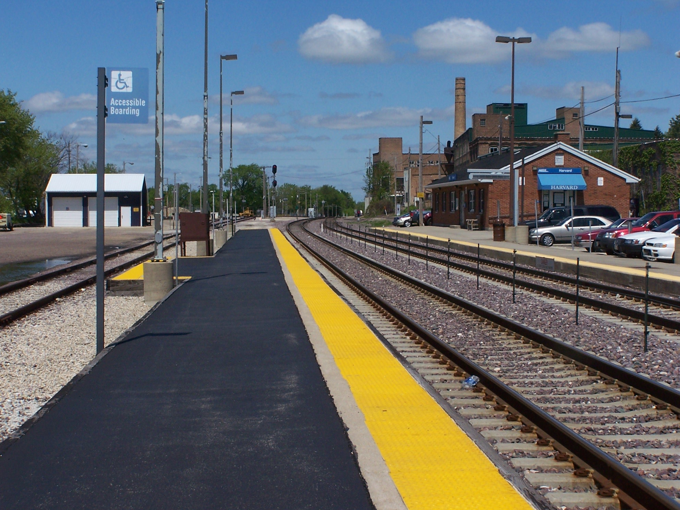 Photograph of the Harvard, Illinois Metra station, taken from Ayer Street looking Northwest